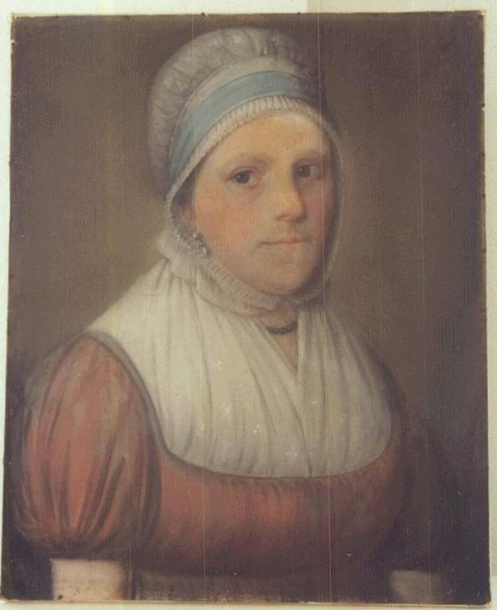 Portrait of Harmina Coops-Hesselink